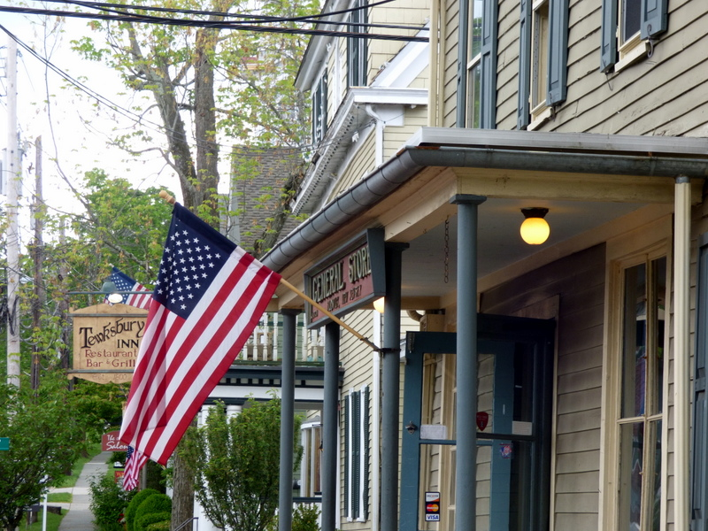 Oldwick Historic District, Roughly along CR 517, Church, King, James, Joliet and William Sts. Oldwick